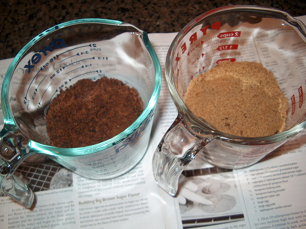 Two measuring cups, one containing muscovado sugar (left), and one containing brown sugar (right). Photo taken February 5, 2007 in San Diego, California, United States. Photo taken with an HP PhotoSmart C812 digital camera. Photo by Ben Winnick (flickr user: benfest) This photo may be used for any purpose by anyone, provided that the photographer, Ben Winnick (Flickr user: benfest), and (Ben Winnick's Flickr page) are credited.